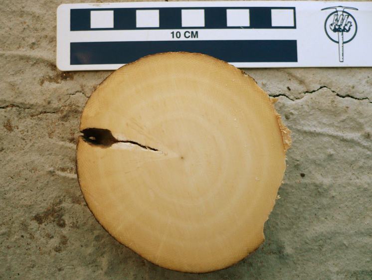 A slice from a mammoth tusk (ivory, growth rings). Yakutsk, Russia.